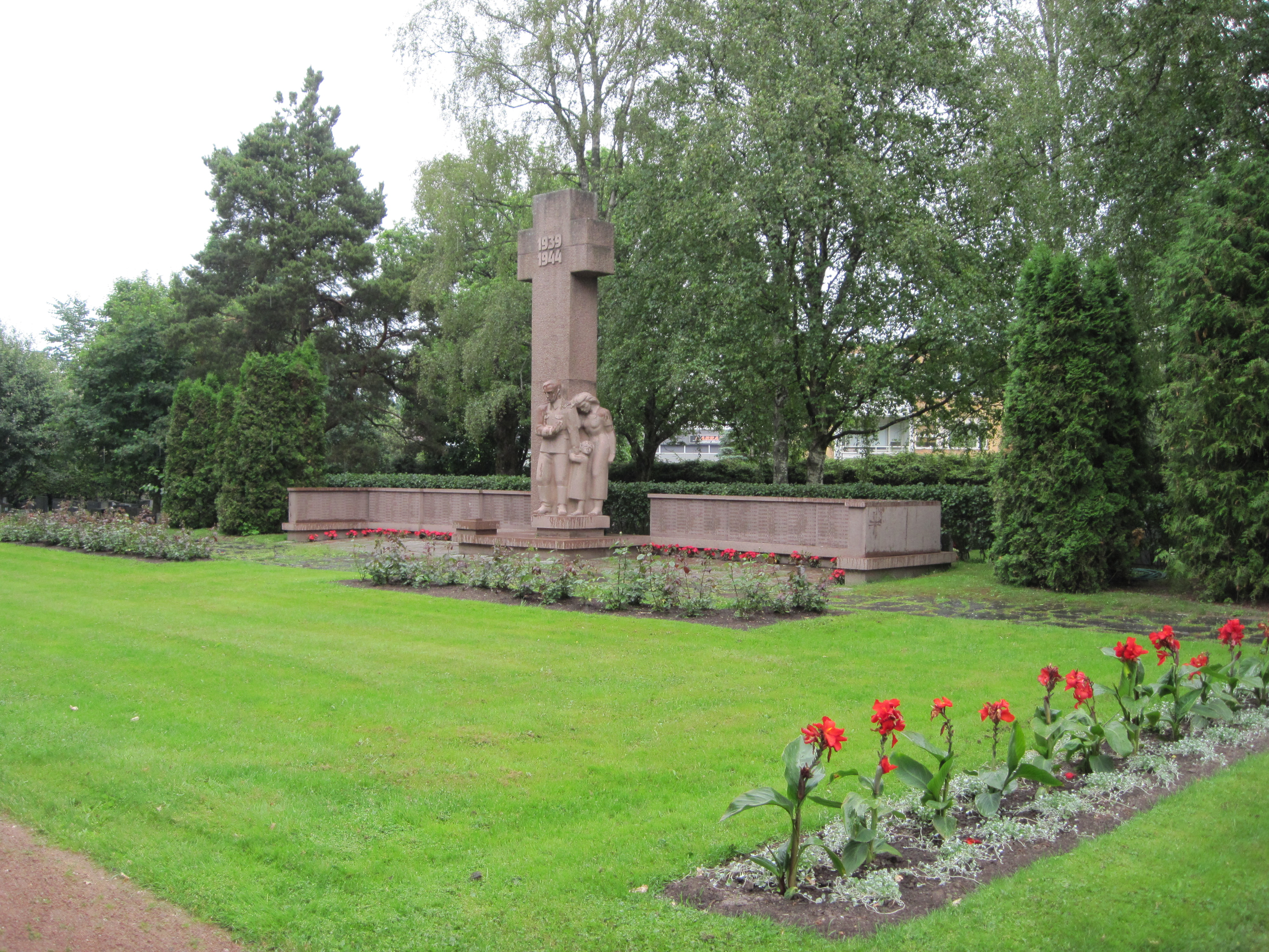 Military cemetary at church in Laitila, Finland